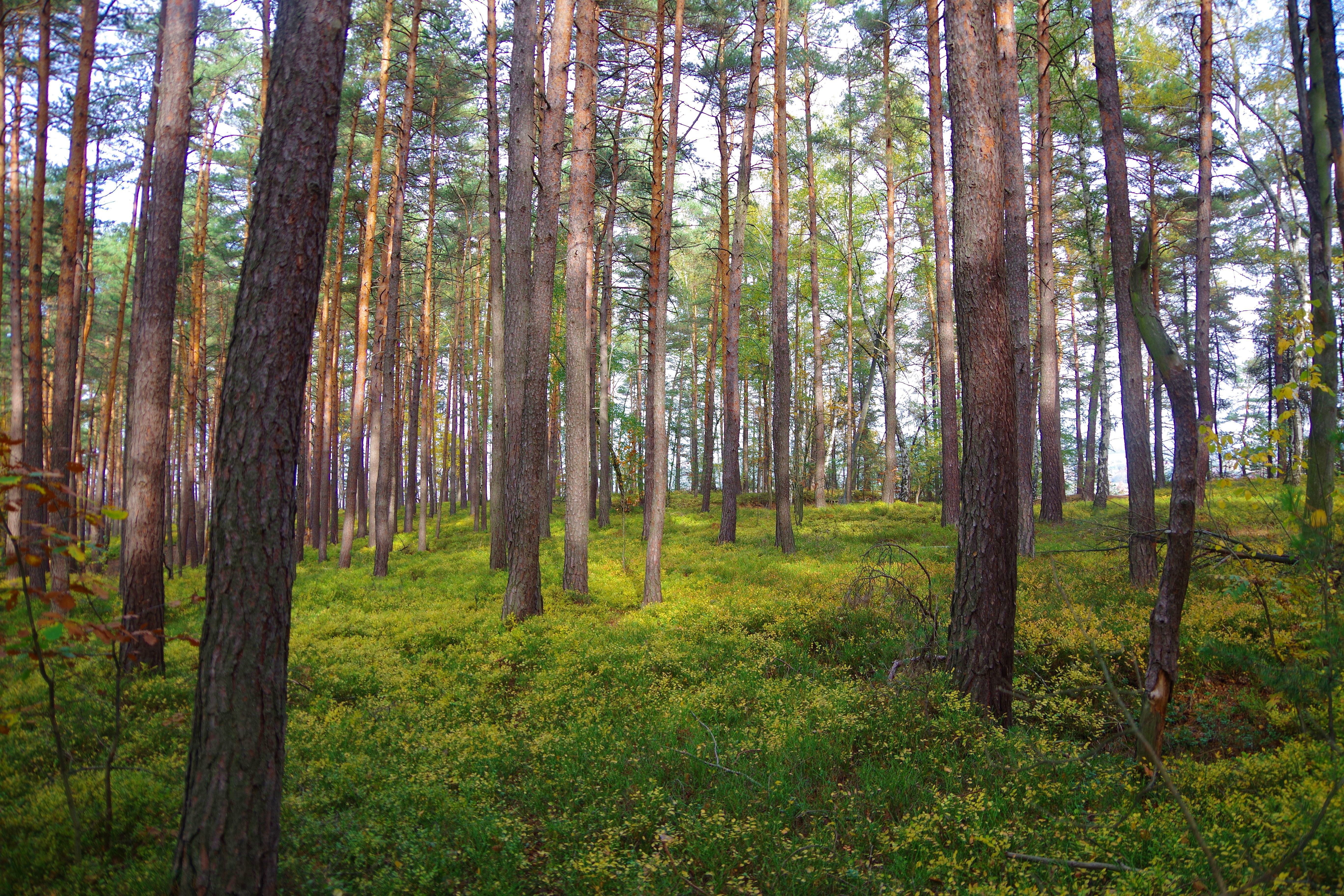 Pine forrest in Klokocske skaly